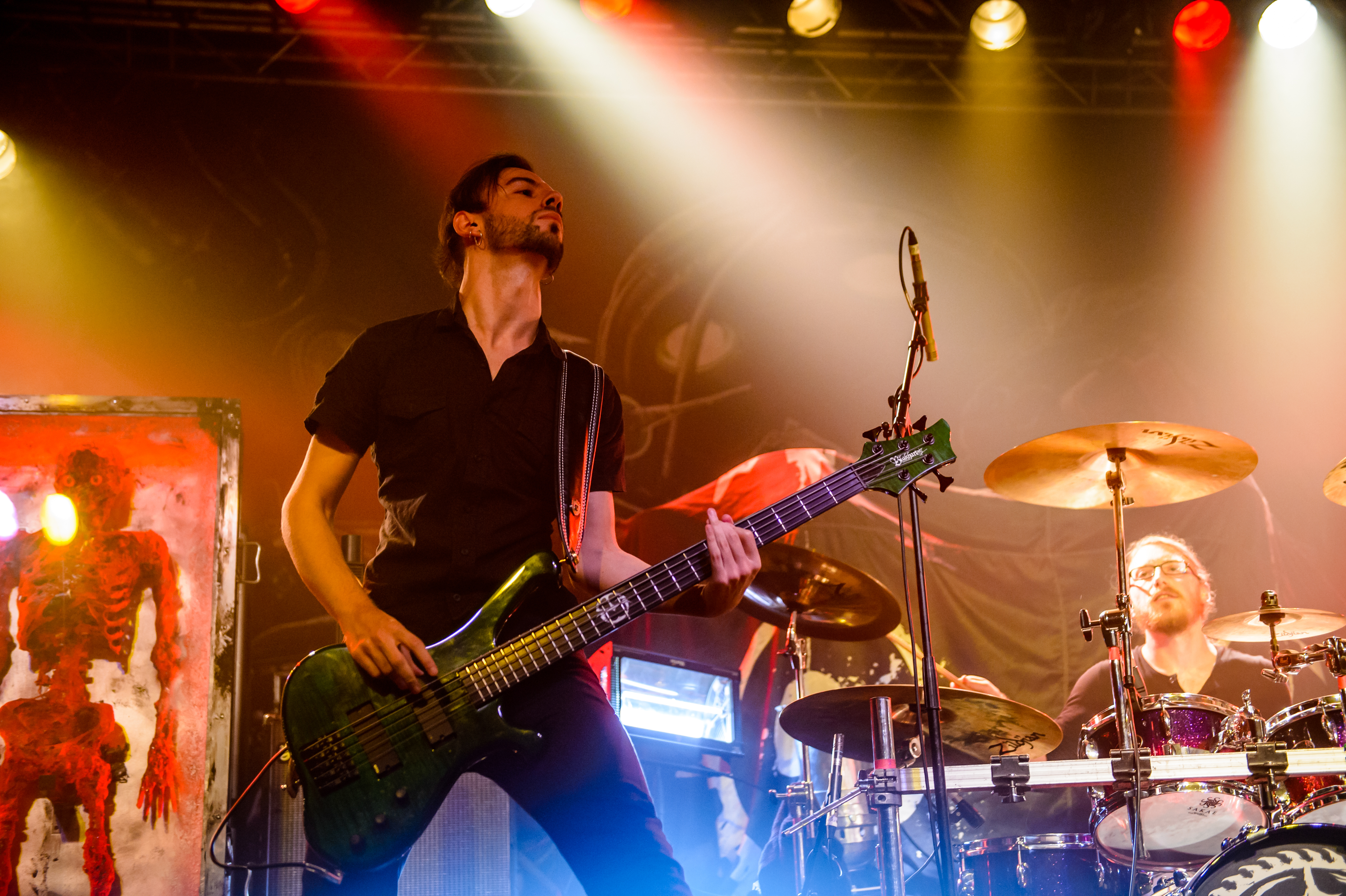 Aborted; RheinRiot Köln 2016